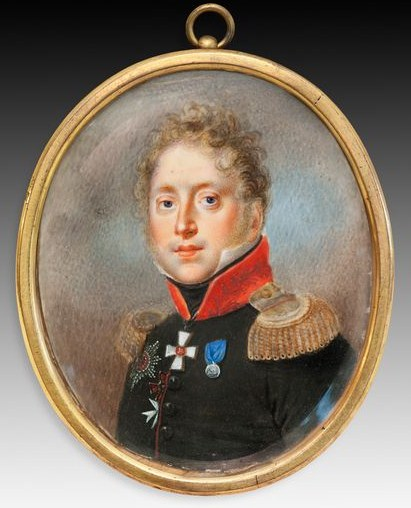 Nikolay Mikhailovich Borozdin 2-nd (1777-1830), General of the cavalry and General-adyutant general of the Russian Empire.